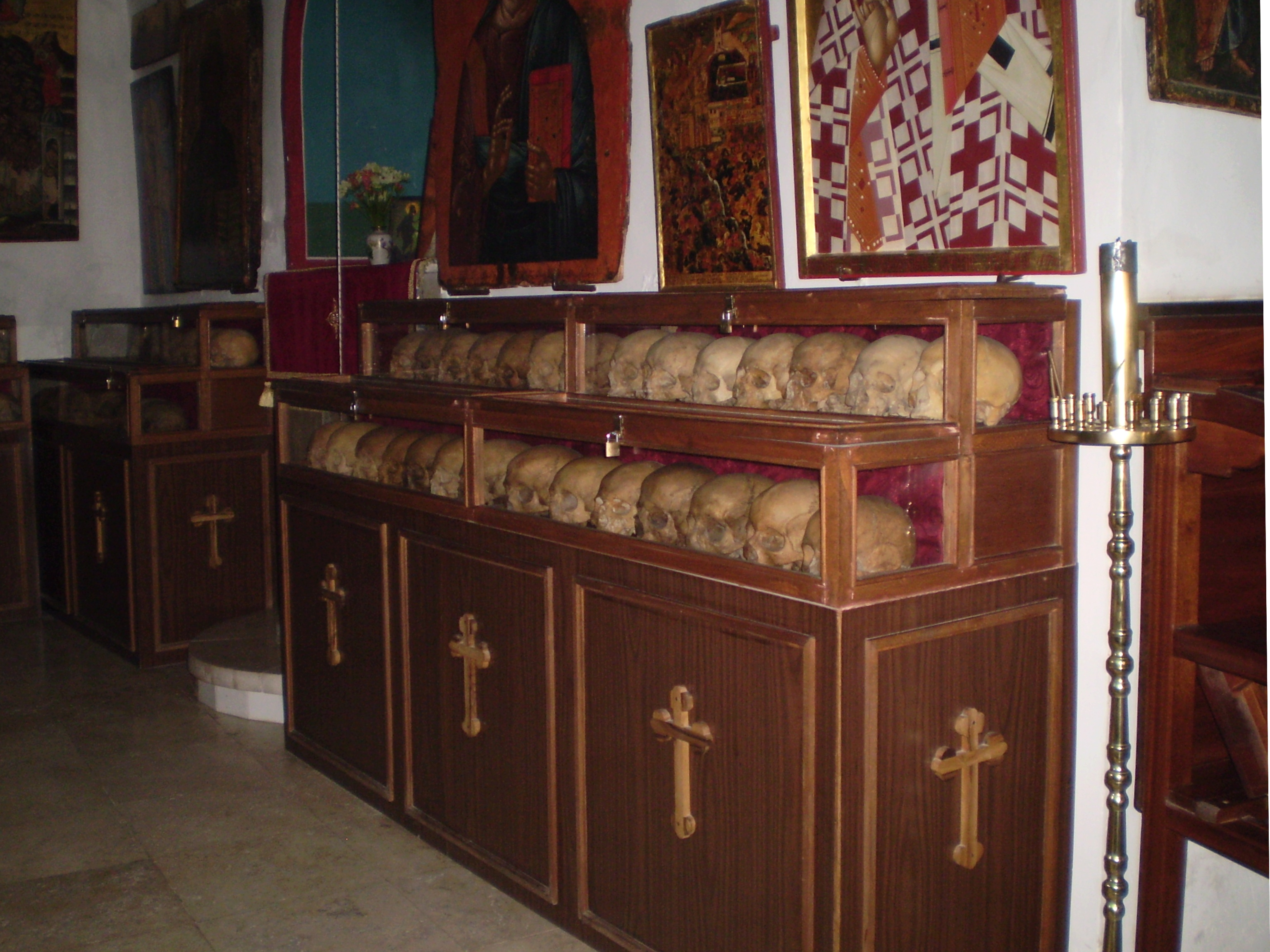 skulls of monks that have been killed by the Persians at year 614 in Mar Saba, Kidron Valley, Palestine